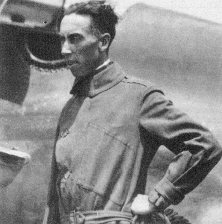 Maj. Rudolph W. Schroeder set world altitude record of to 28,500 feet, setting a two-man altitude record with Lt. George A. Elfrey as passenger at Mc Cook Field, Ohio. Continuing the test, Schroeder and Elfrey went to 30,900 feet on September 24 and to 31,821 feet on October 4th 1920